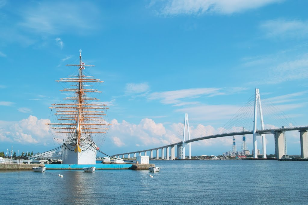 Shinminato Bridge, Toyama Prefecture